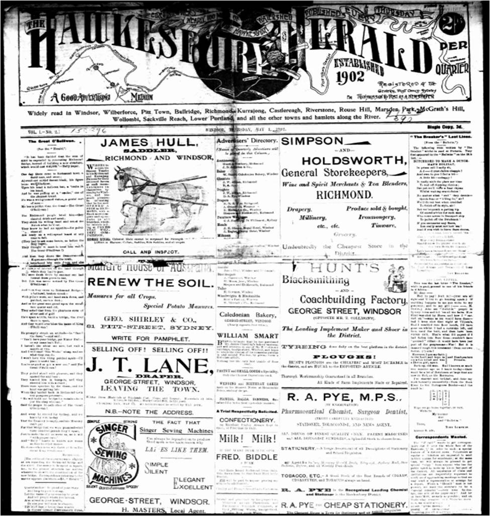 Coverpage of a historic newspaper from New South Wales, Australia.